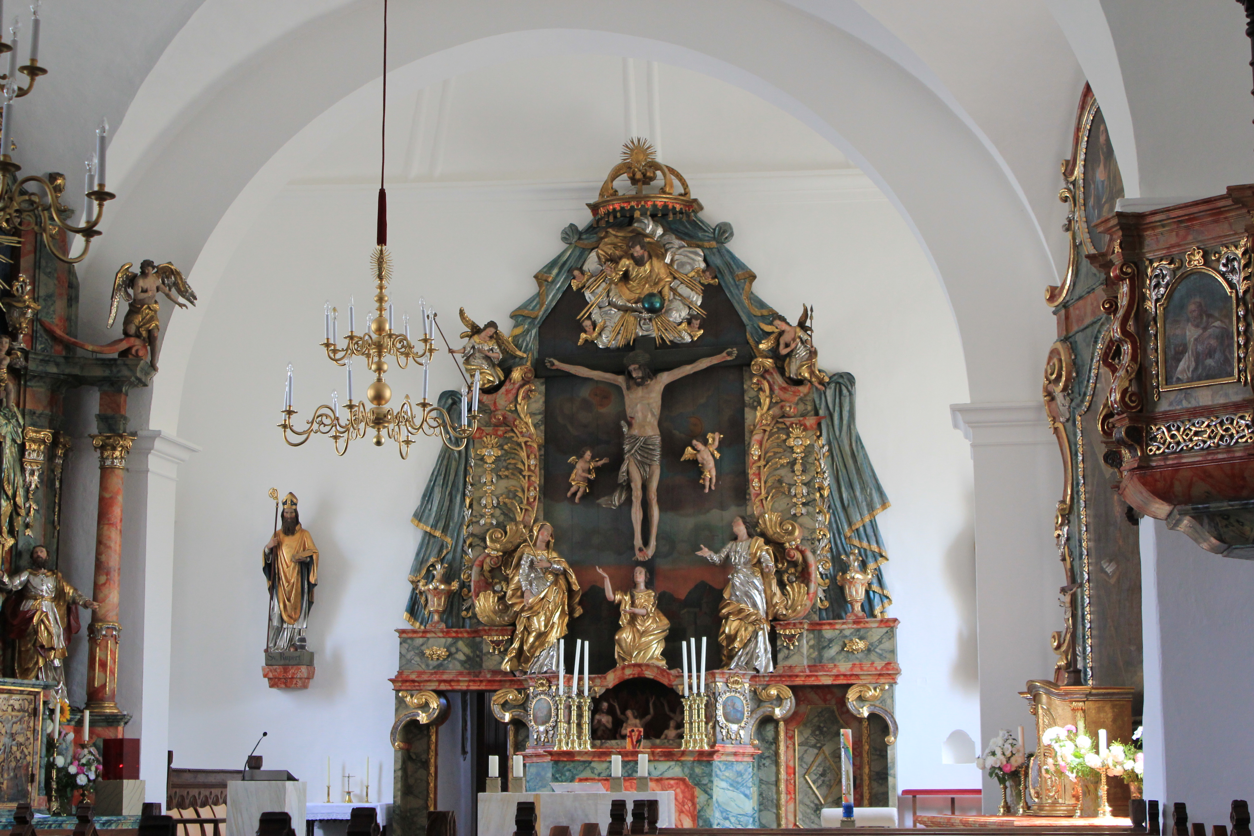 Parish-church St. Ruprecht in Völkermarkt - Interior